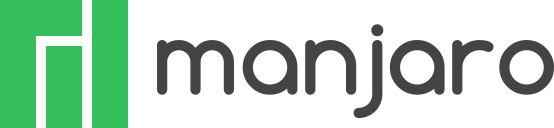 Manjaro Linux current logo plus text.